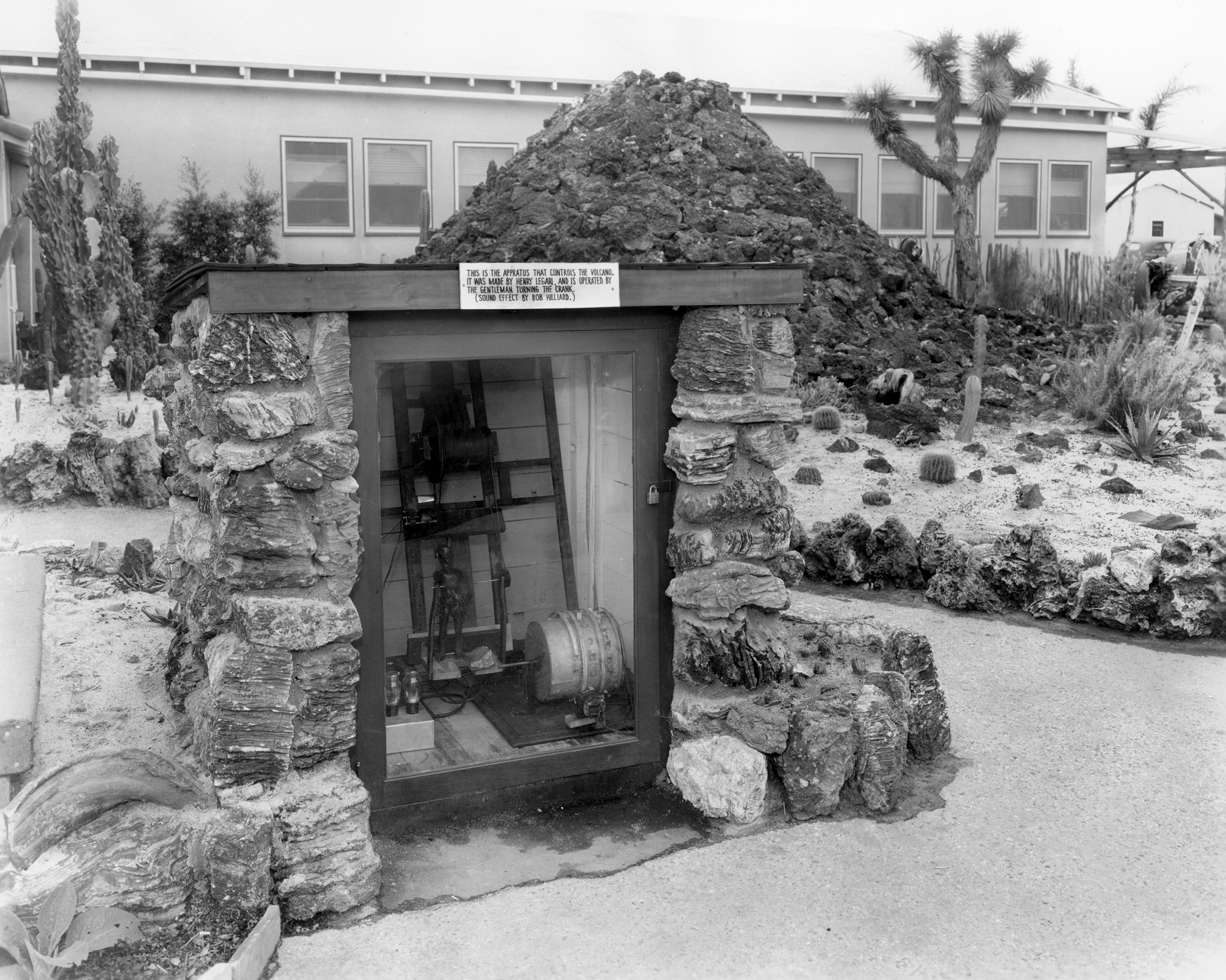 From the Knott's Berry Farm collection. There are no known copyright restrictions on this image. All future uses of this photo should include the courtesy line, "Photo courtesy Orange County Archives." The caption sign above the enclosure reads This is the apparatus that controls the volcano. It was made by Henry Legano, and is operated by the gentleman turning the crank. (Sound effect by Bob Halliard.)